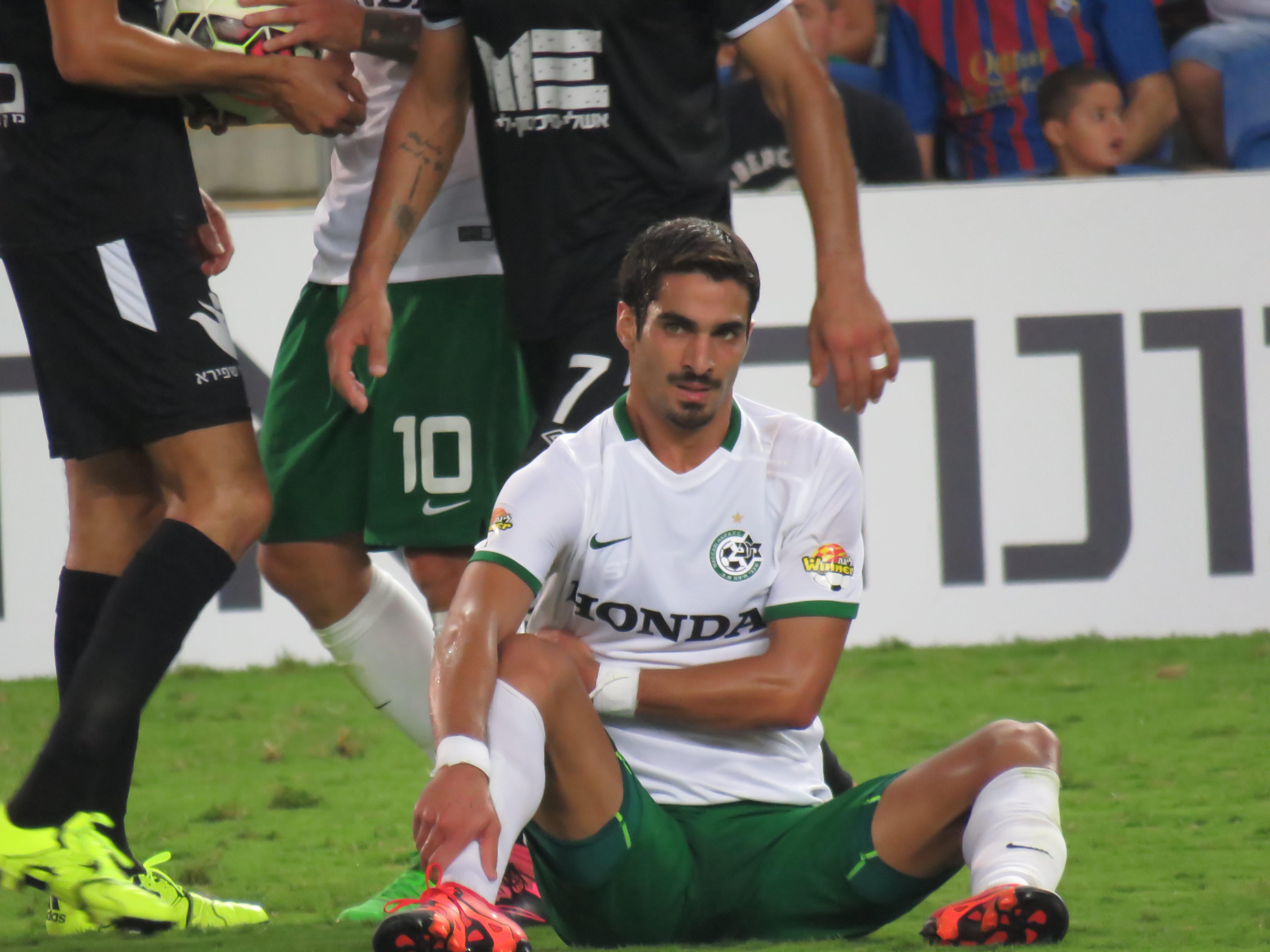 Hapoel Ra'anana vs. Maccabi Haifa F.C., 3 October, 2015